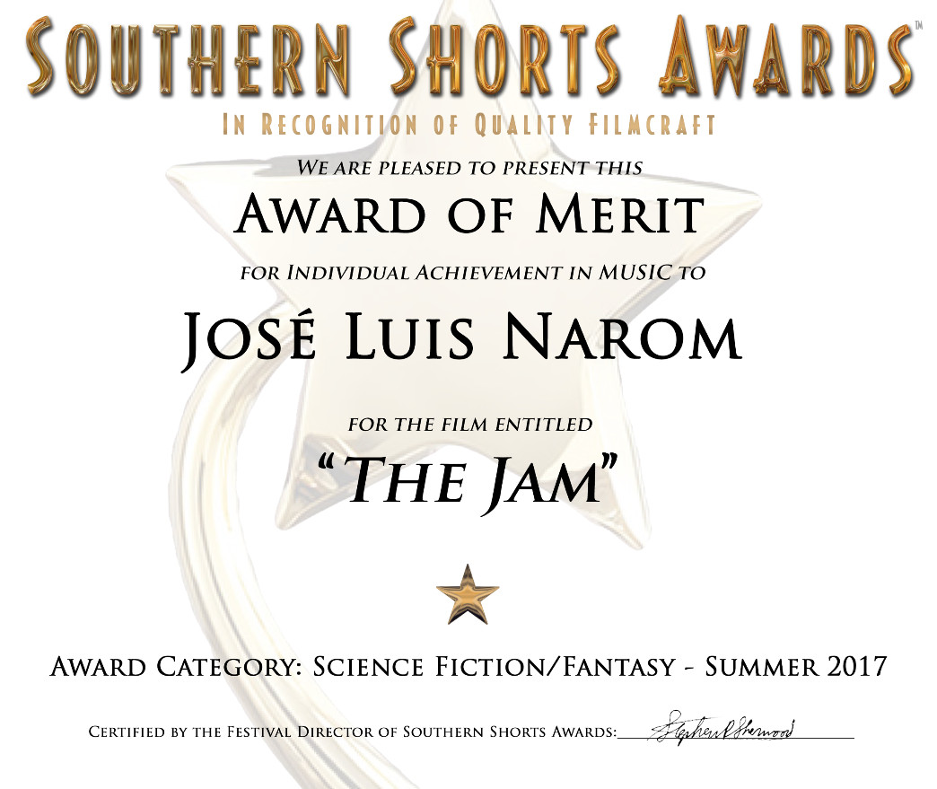 Southern Shorts Awards - "The Jam" - Award of merit in music to Jose Luis Narom